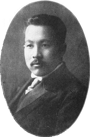 Osanaga Kanroji